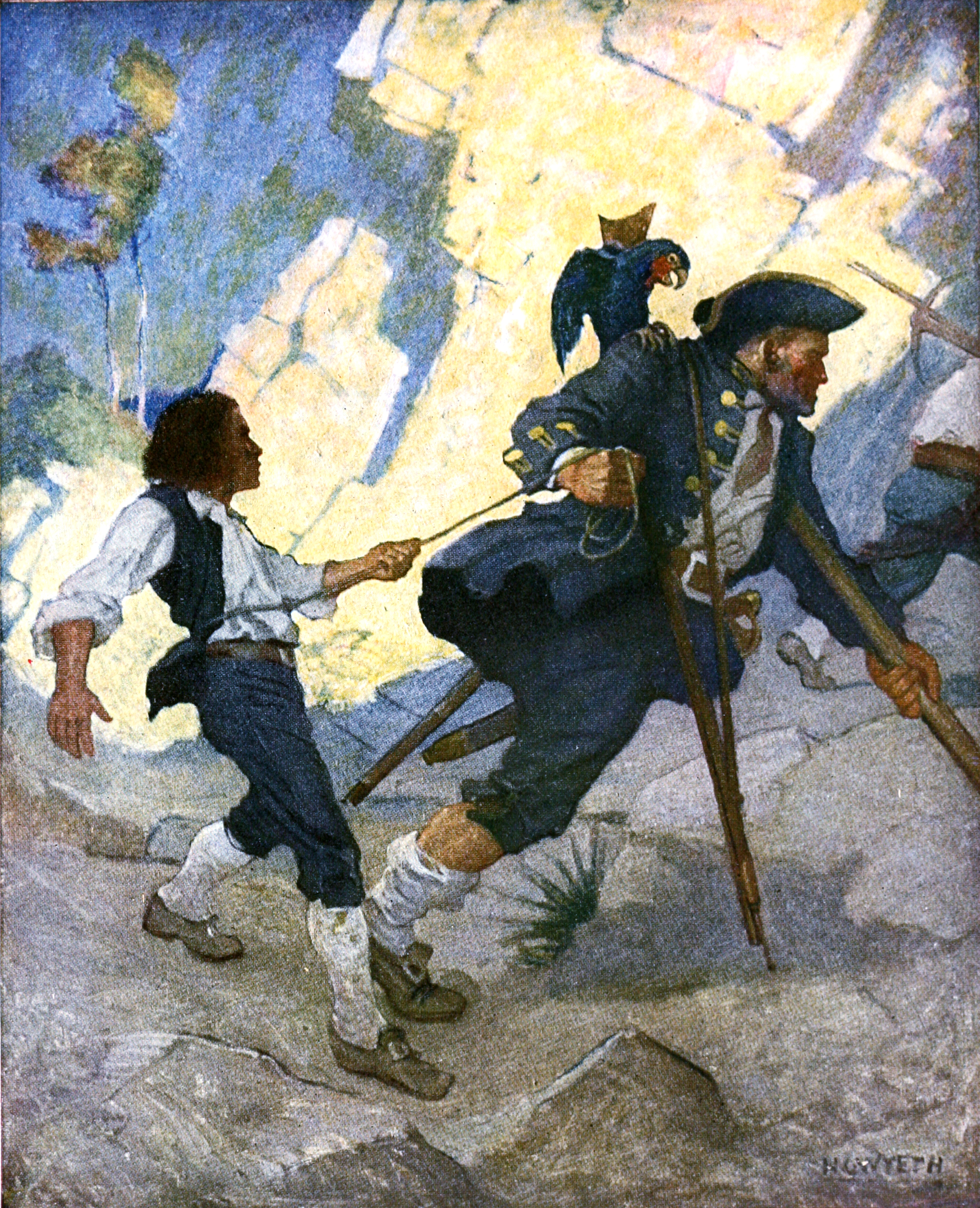 Jim, Long John Silver and his Parrot by N. C. Wyeth from 1911 edition of Treasure Island